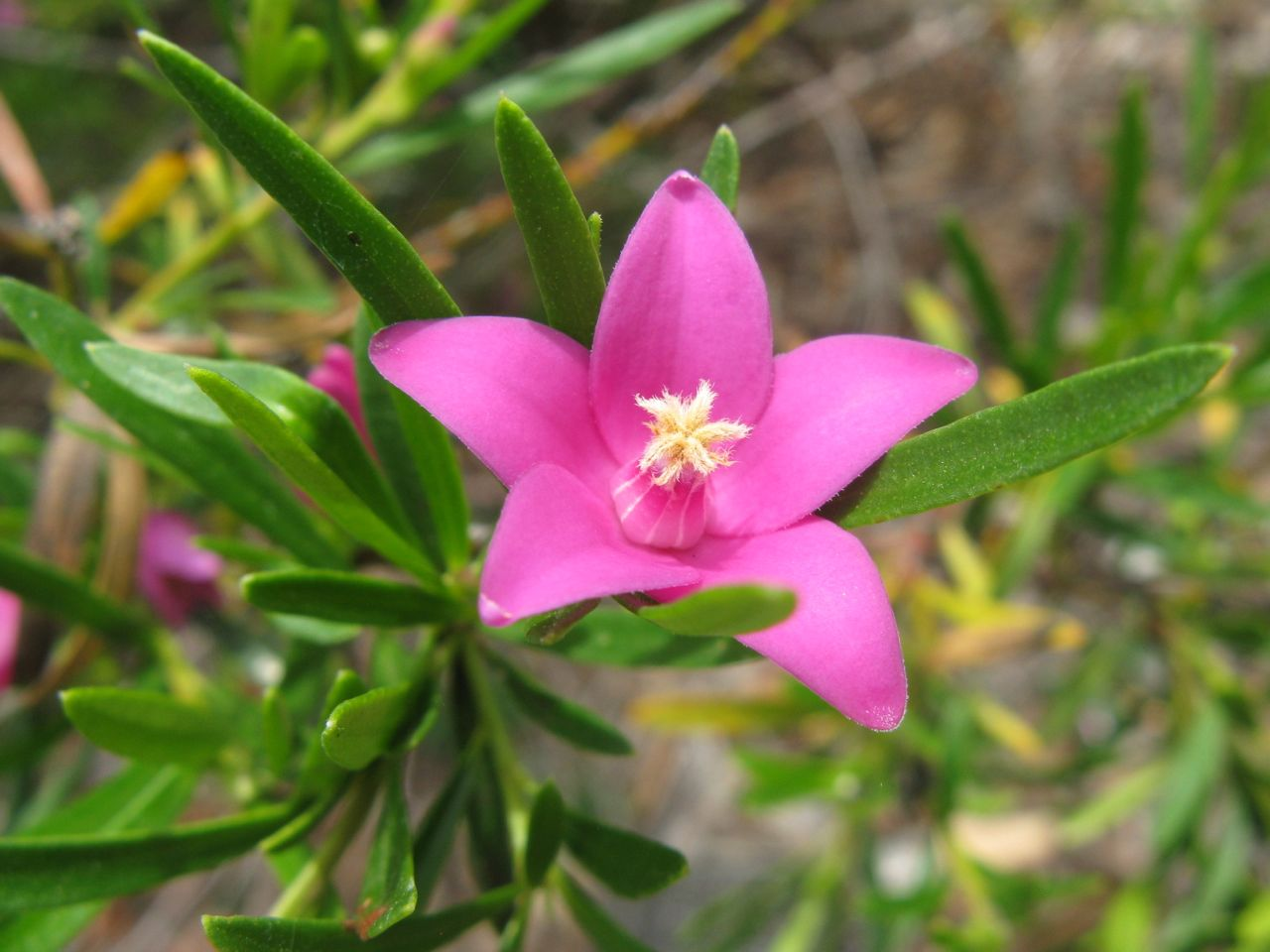 Crowea 'Festival', Australian National Botanic Gardens, Canberra